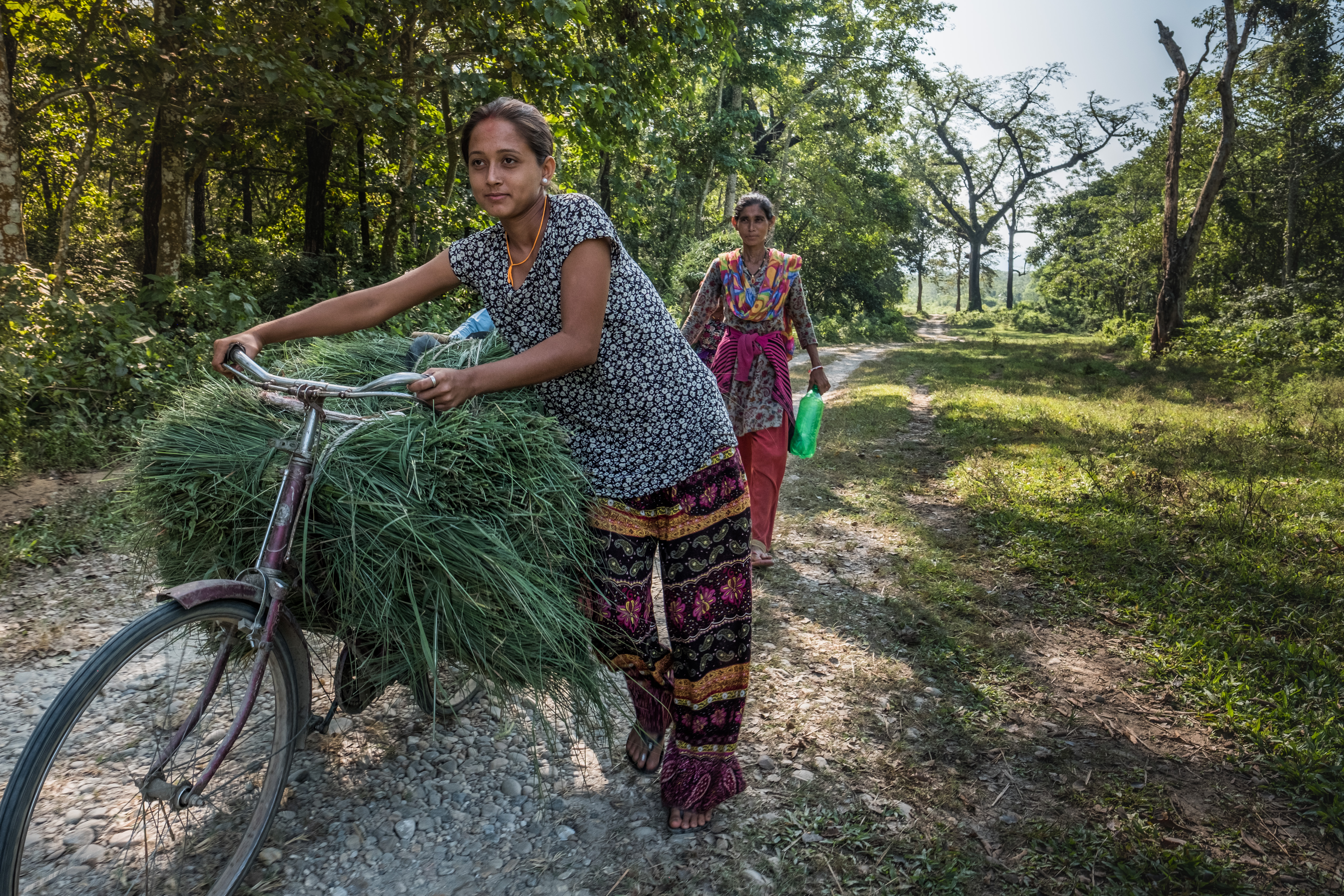 November 2017. Community members are allowed to collect grass in the edges of the Kumrose Community Forest. Kumrose, Nepal. Photograph by Jason Houston for USAID